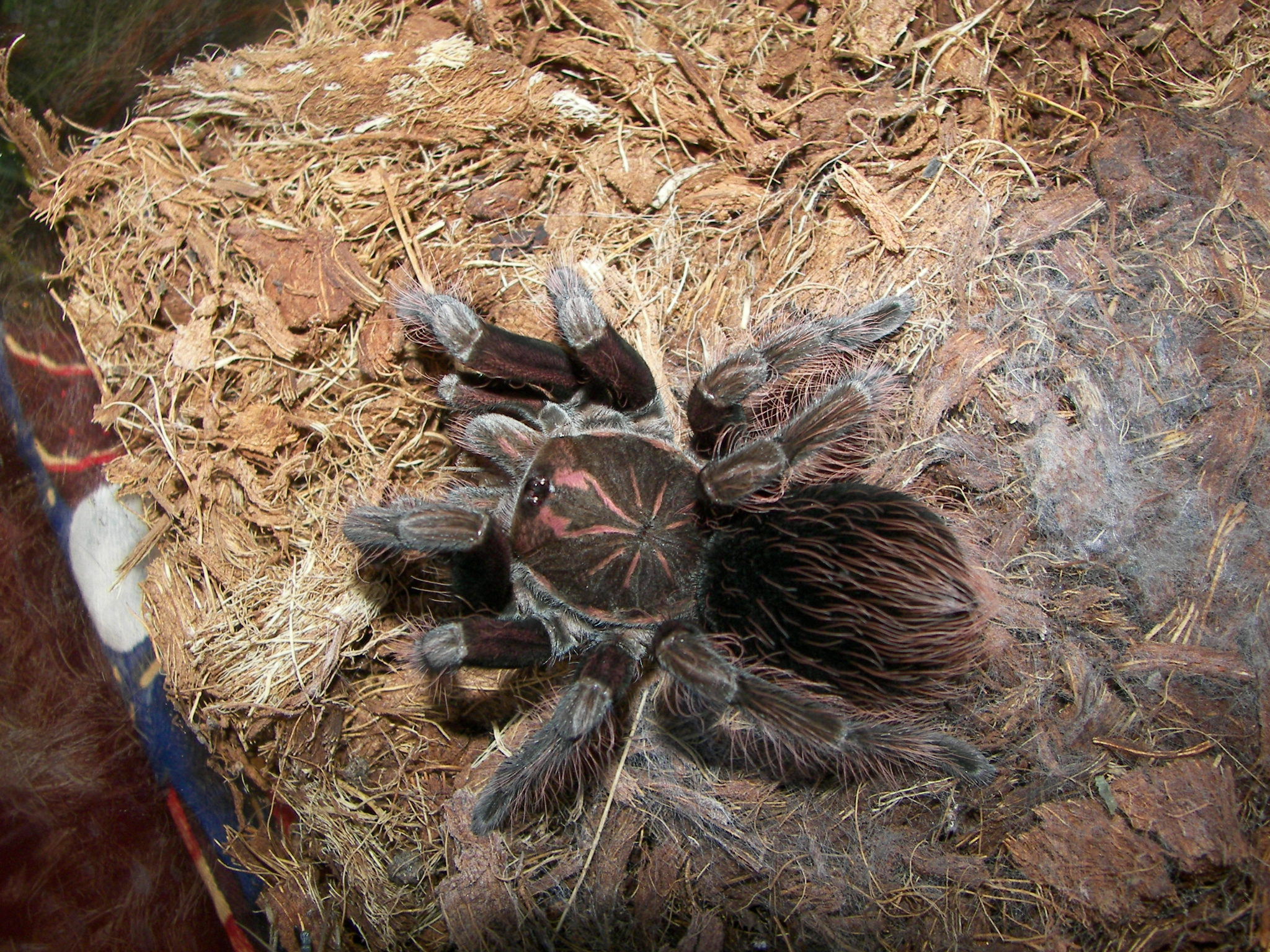 Female Vitalius platyomma.